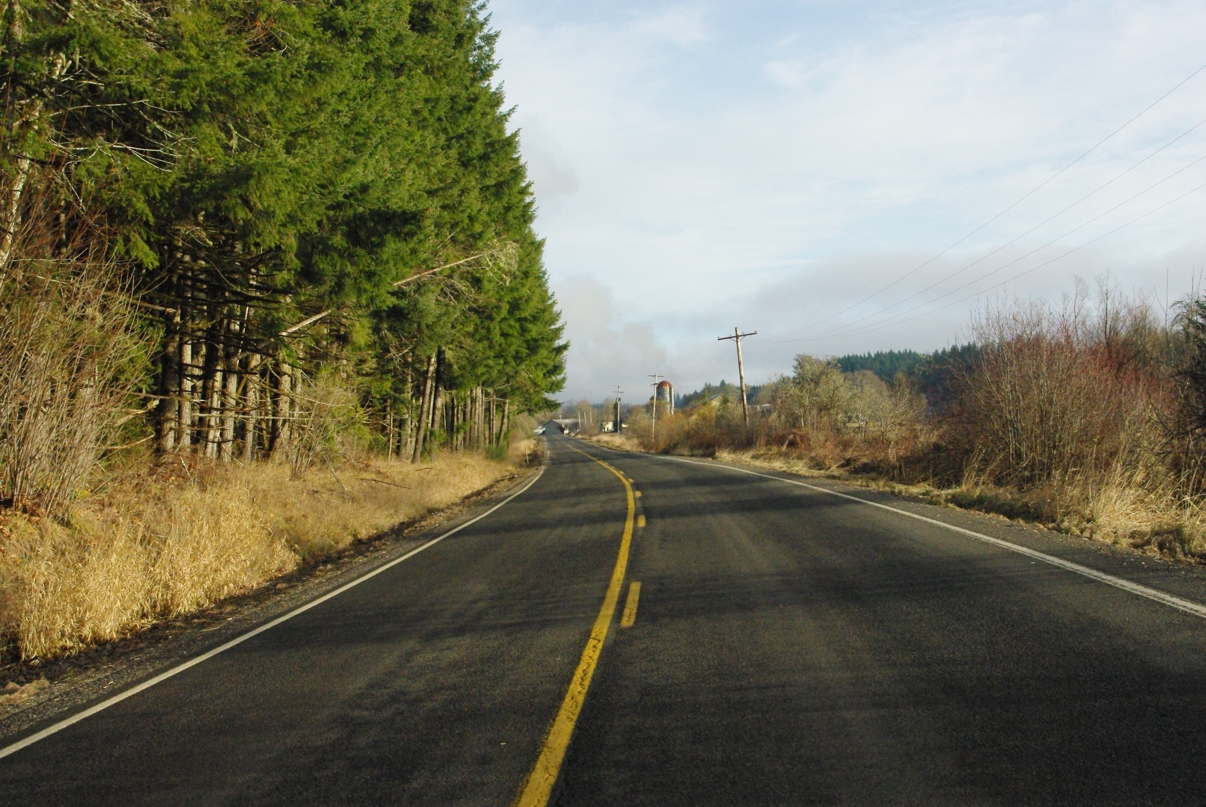 Oregon Route 202 west of Mist in Columbia County, Oregon, looking east.